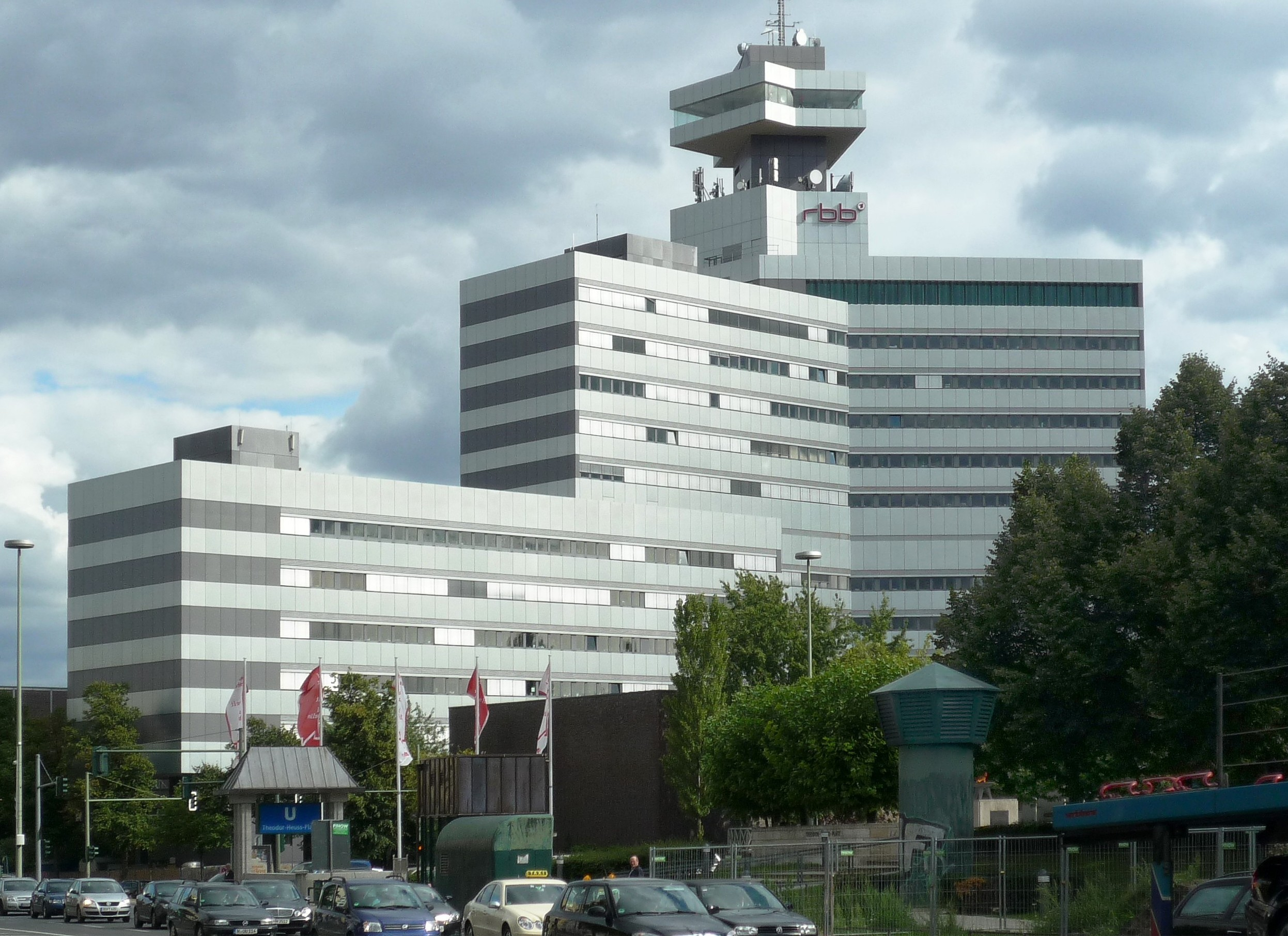 Building of the RBB (Radio Berlin Brandenburg) in Berlin, Theodor-Heuss-Platz.